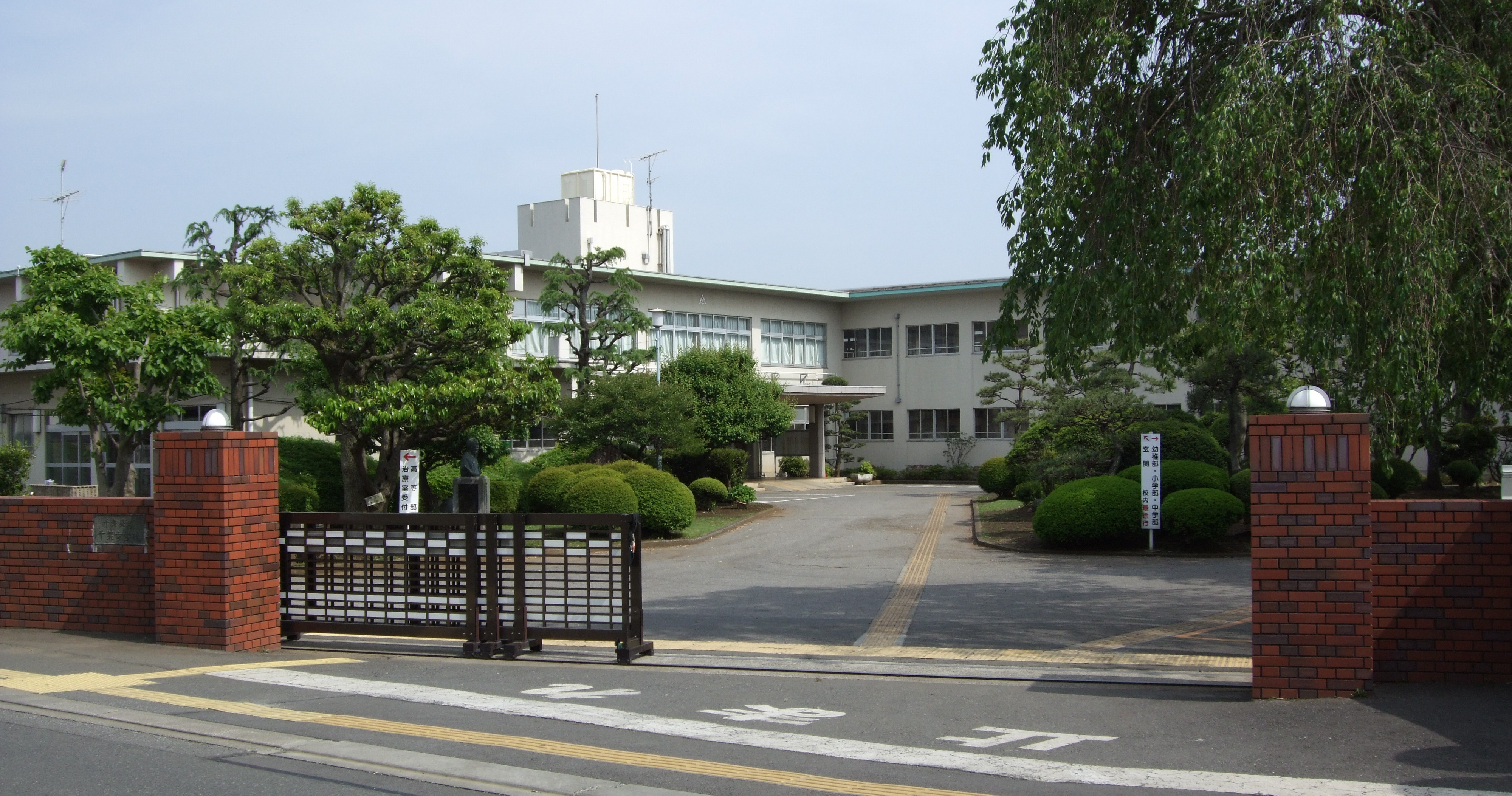 Chiba school for the blind. (Chiba, JAPAN)